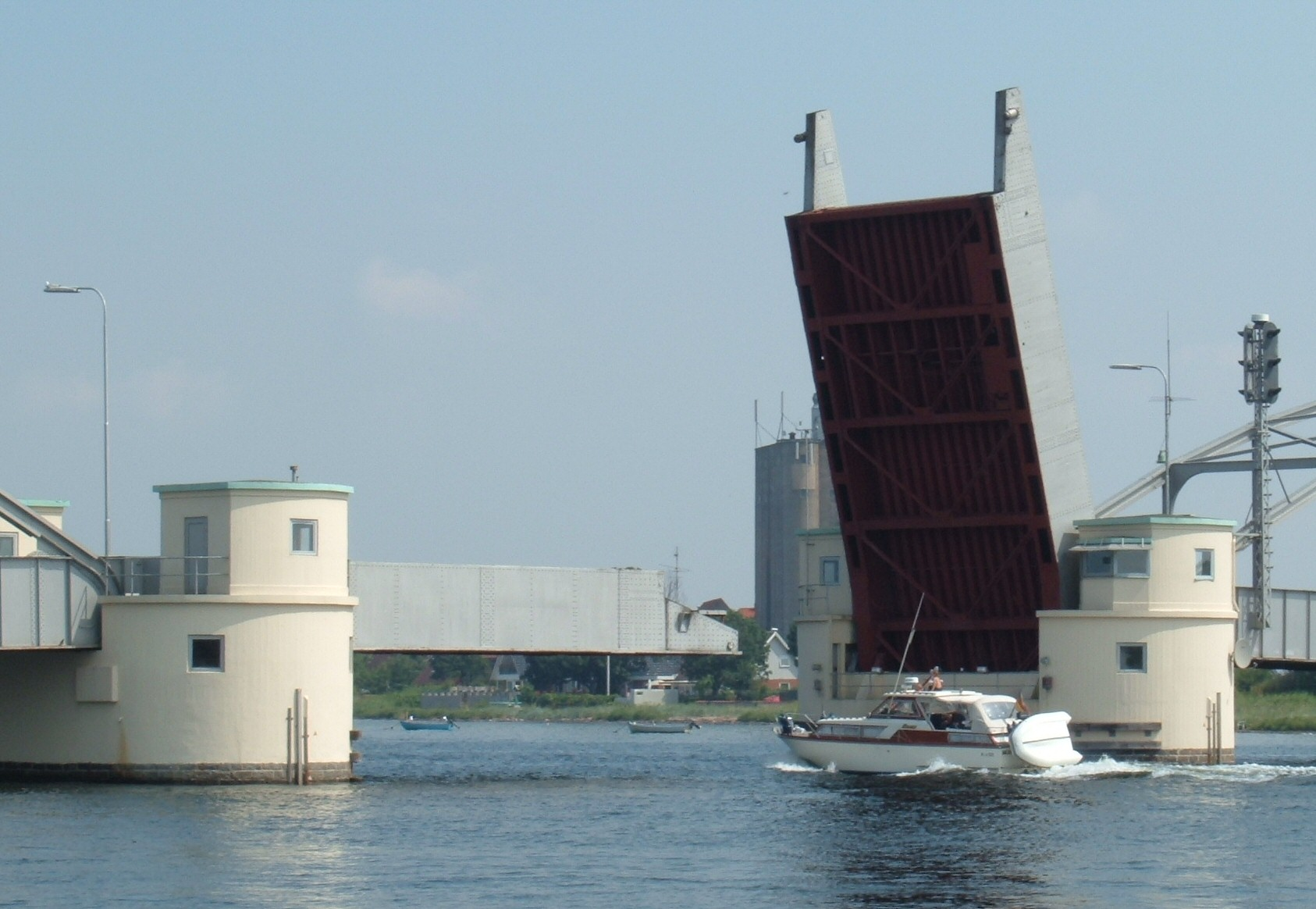 Guldborgsund Bridge across the northerm end of the Guldborg Sund between the islands of Lolland and Falster in Denmark. View of bridge with one bascule open. Taken by contributor, July 2006.